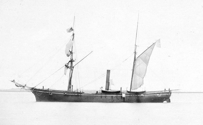 USS Pocahontas (built 1852). Photo apparently taken at or near Edisto Island, Massachusetts, 1865 or before. This is a cropped version of File:USS Pocahontas (1852).jpg.